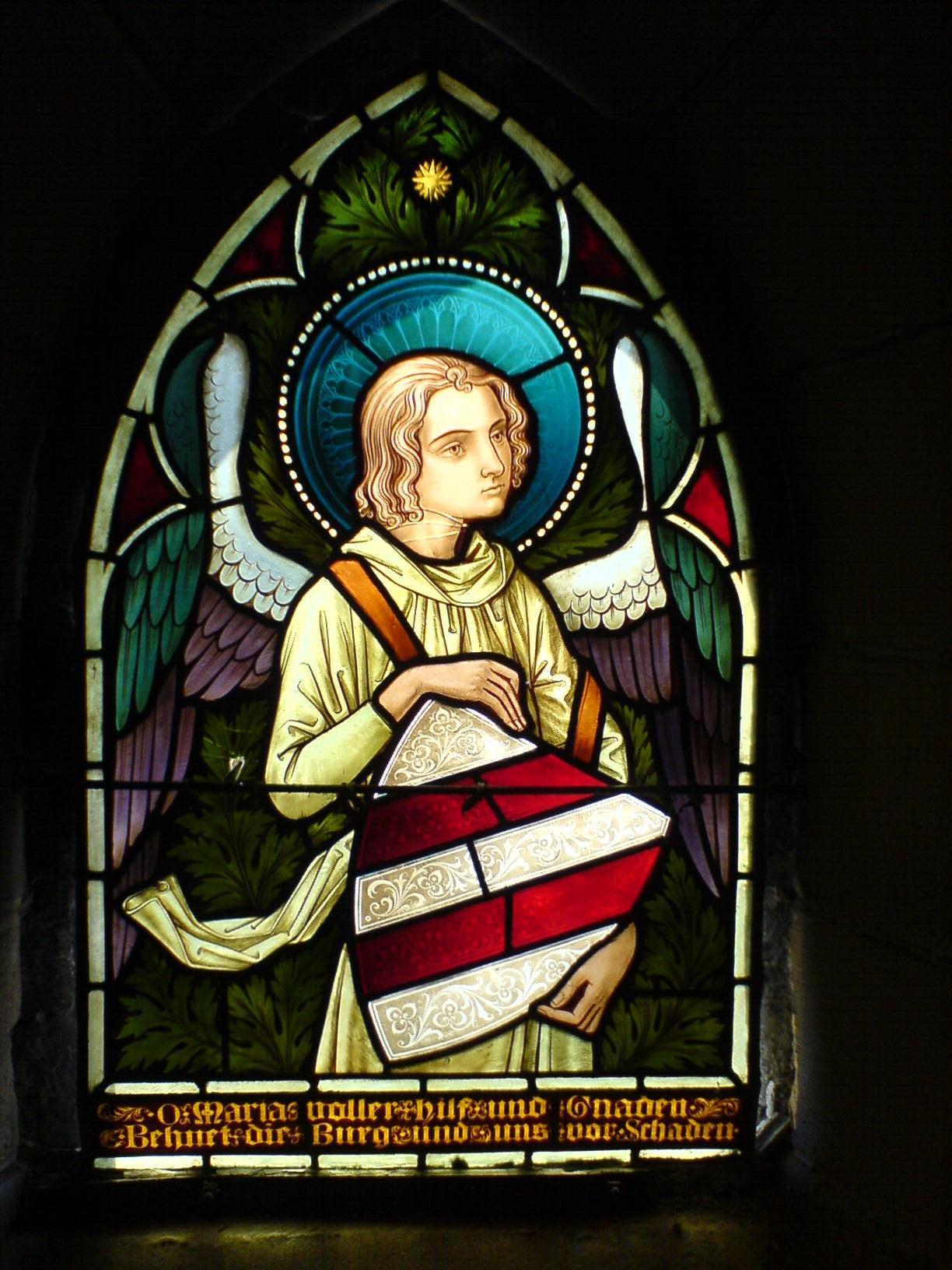 Stained glass in the Chappel of Eyneburg, Belgium.